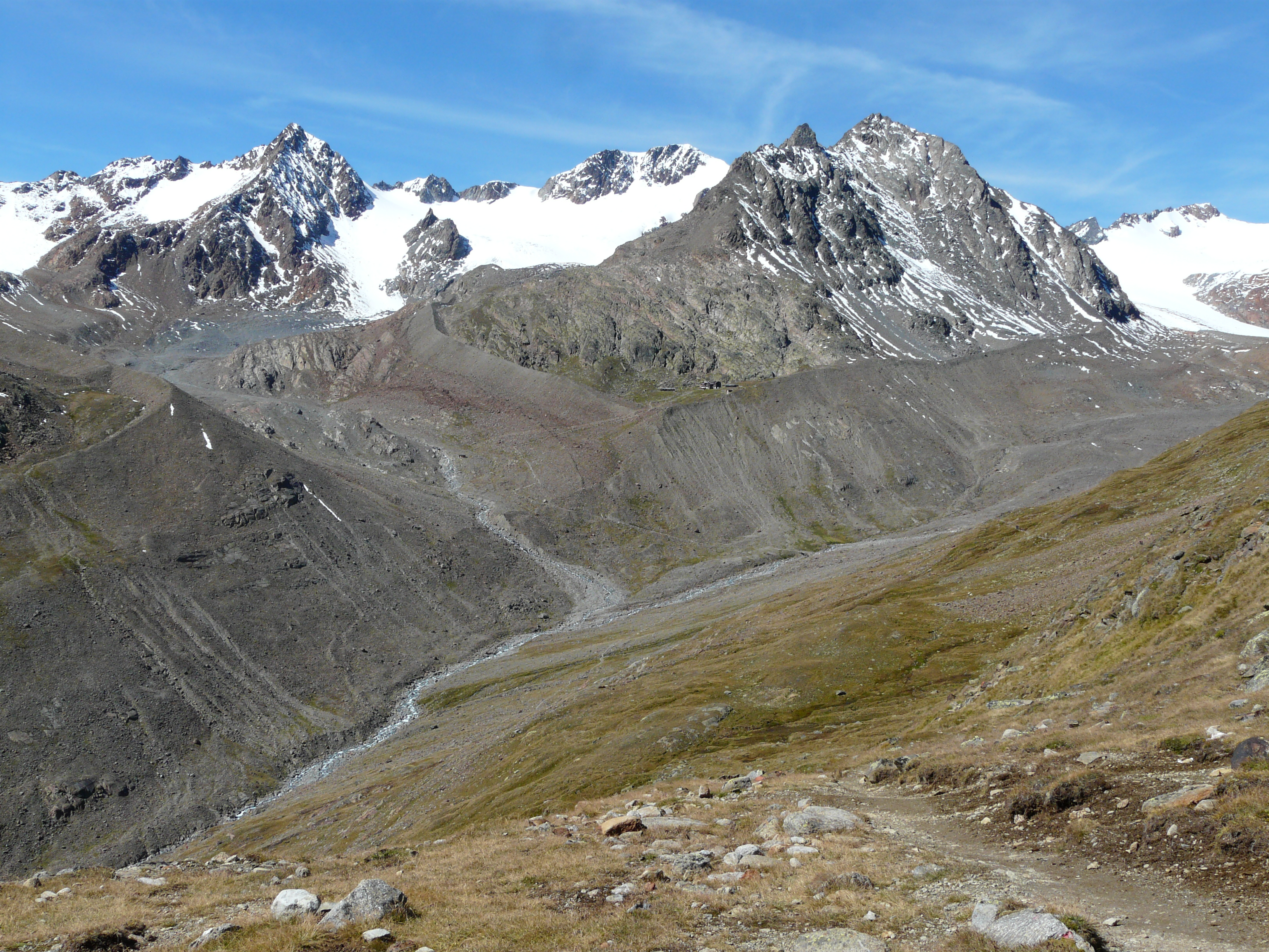 Vernagthütte placed over the lateral moraine of the reduced Vernagt glacier